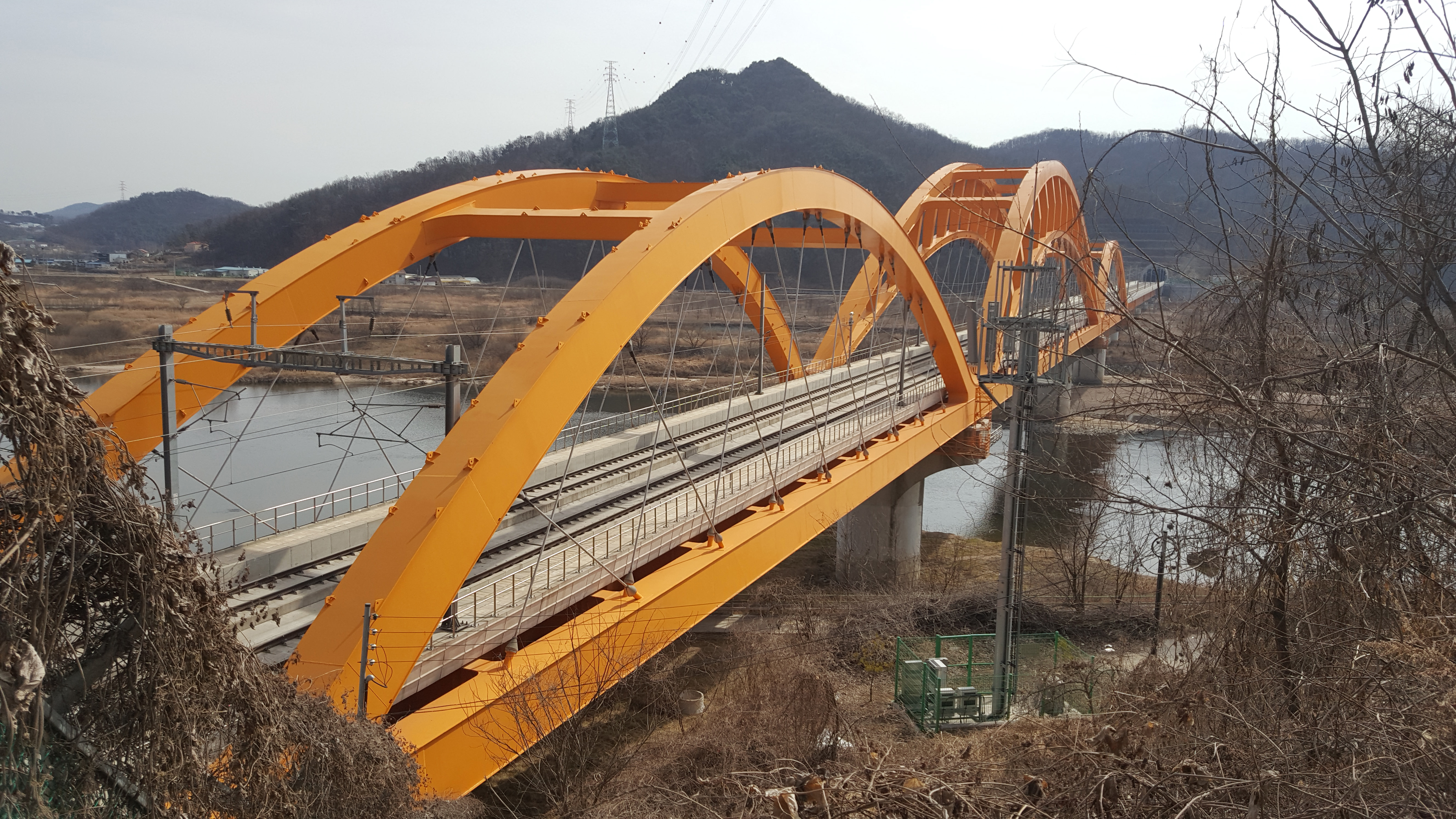 Honam HSR bridge crossing Geum river in Sejong